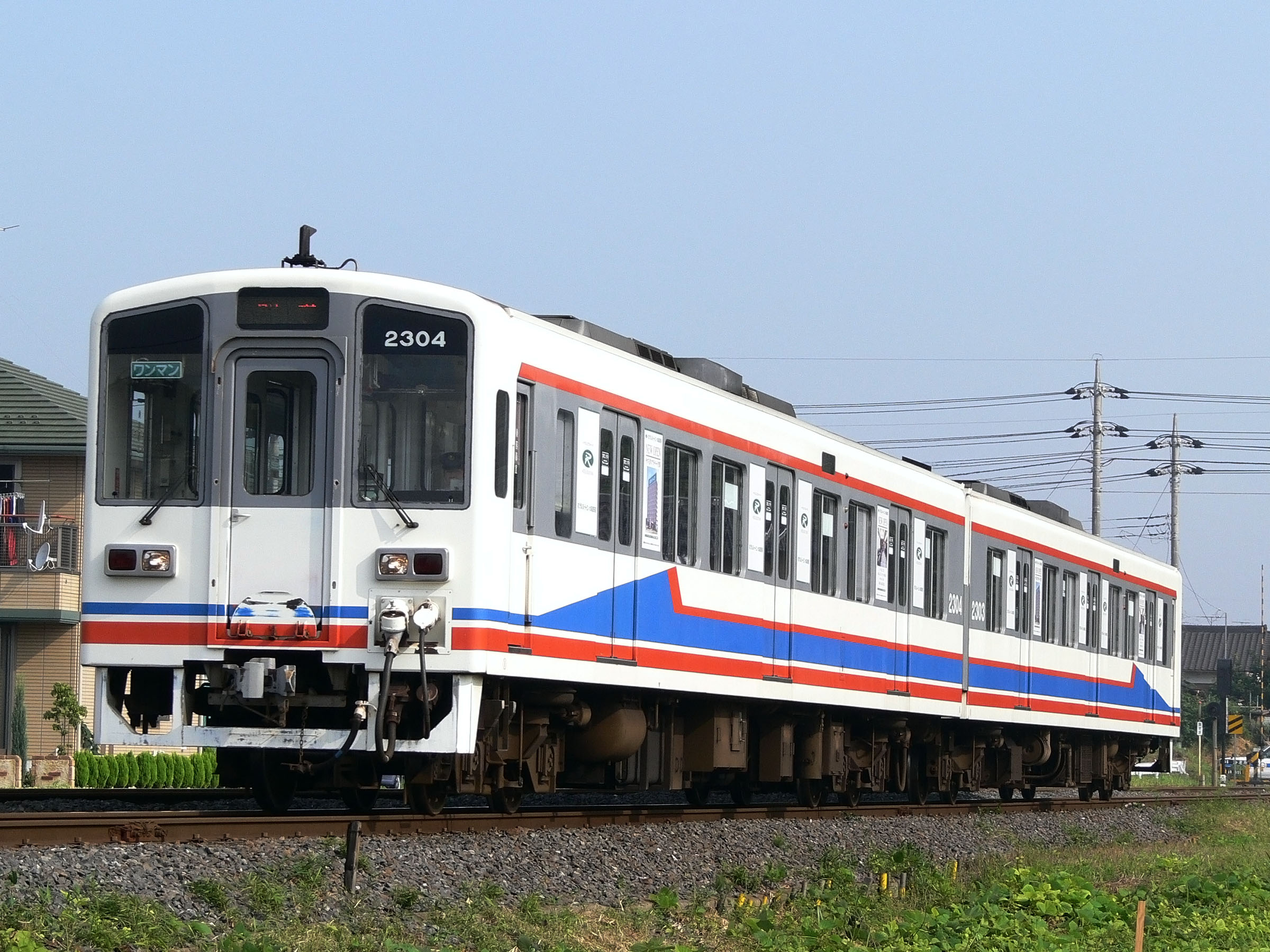 Kanto Railway 2300 series DMU cars 2303 and 2304 near Moriya Station in Ibaraki Prefecture, Japan